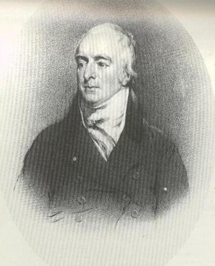 picture of the english diplomat and ecoomical agent of the 18.th C. N.W. Wraxall